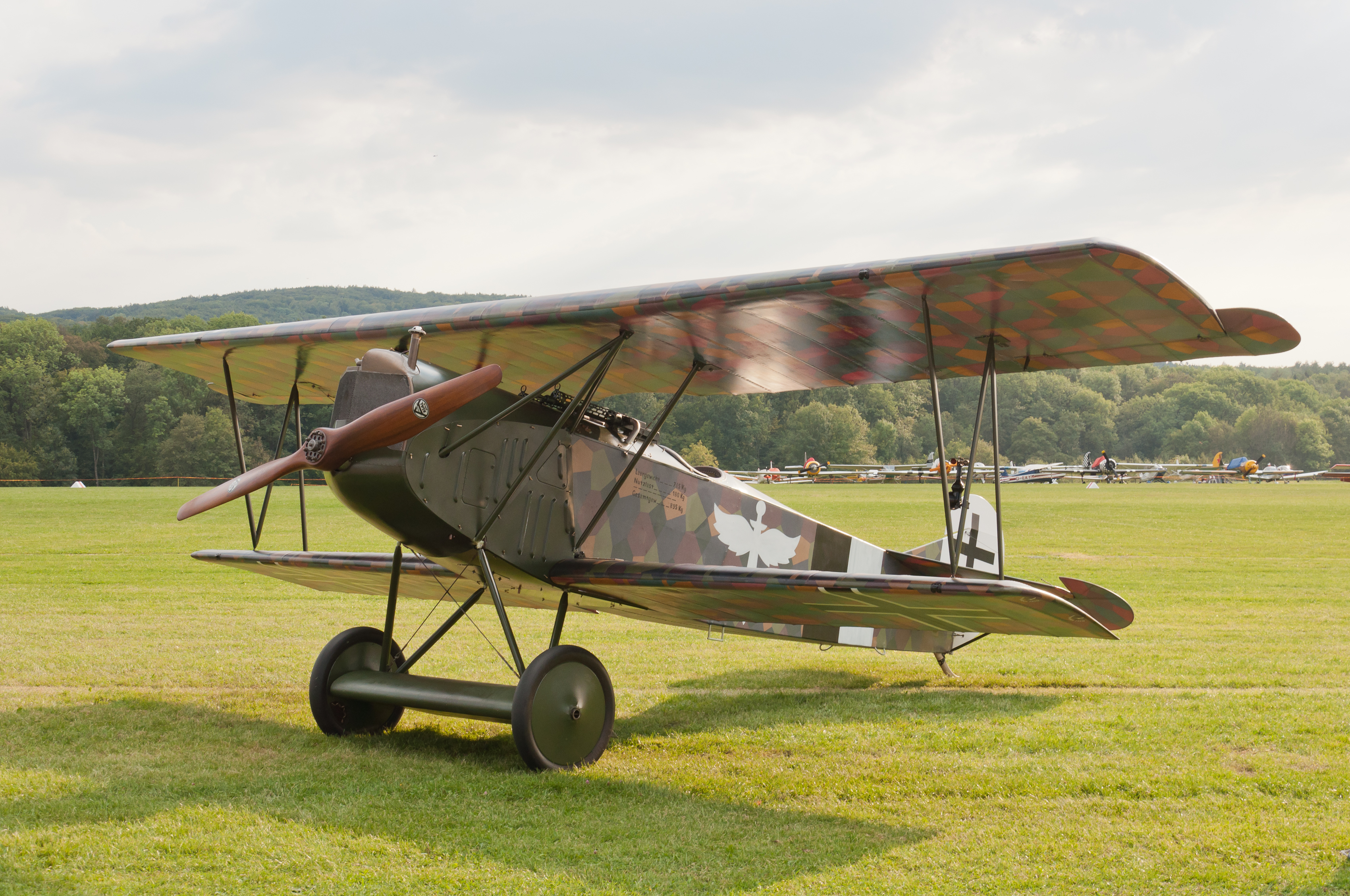 Mikael Carlson's Fokker D VII (reg. SE-XVO, built in 1917/2011). Engine: Daimler D IIIaü.